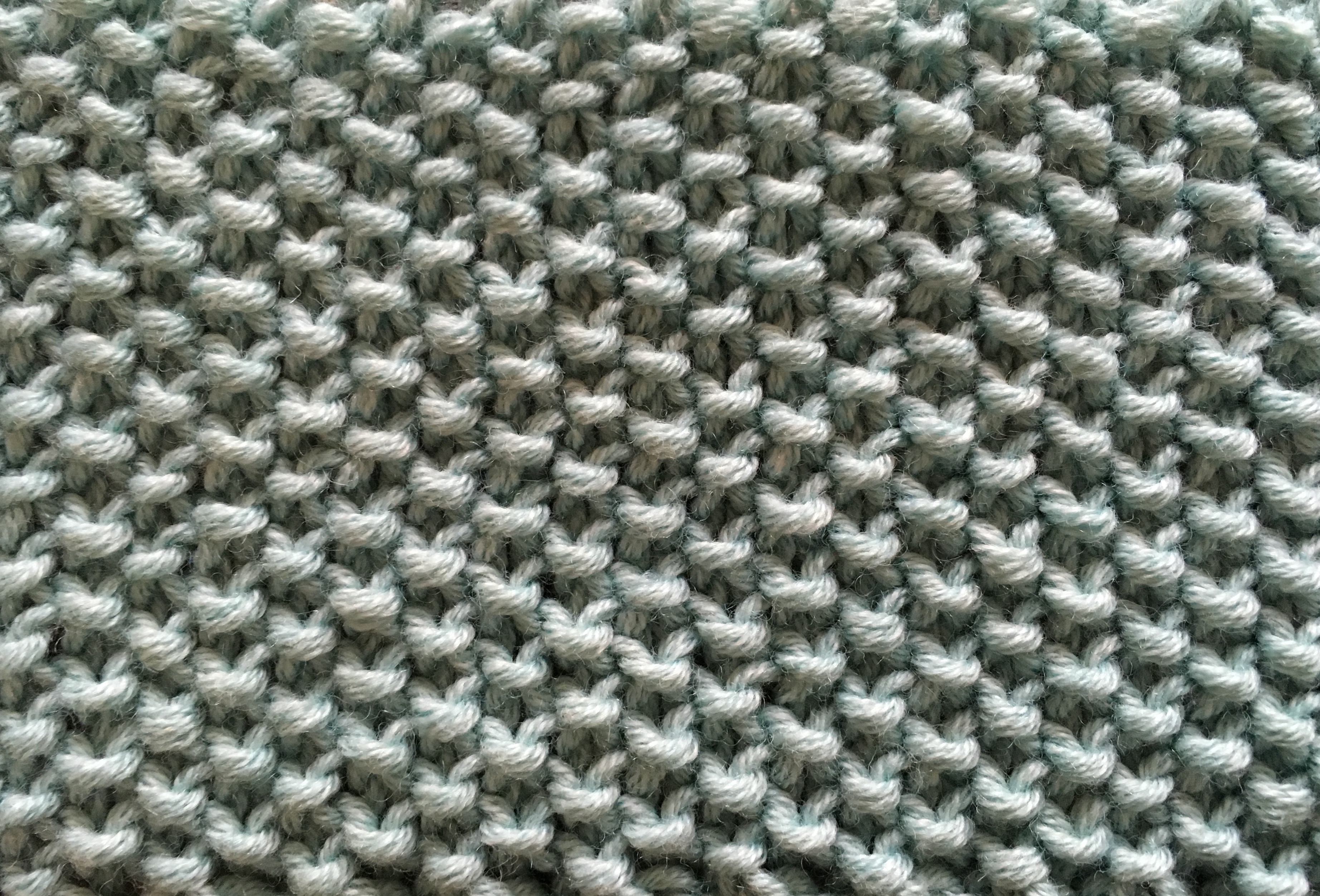 Knitting swatch of moss stitch.